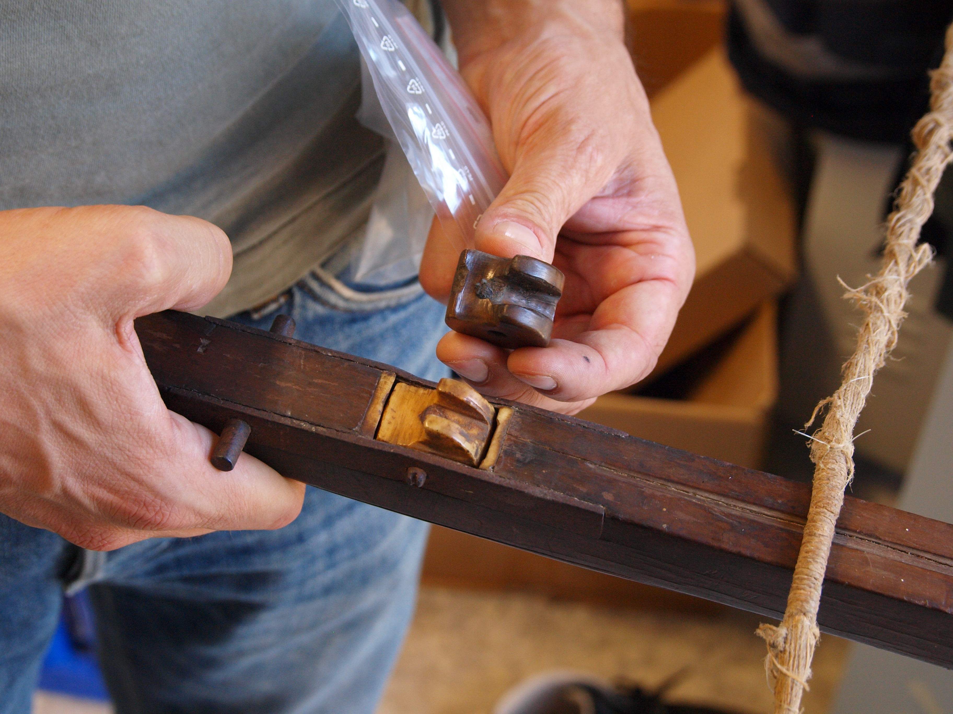 Crossbow nut of the 16th century AD excavated at Harburger Schloßstraße, Hamburg Harburg, Germany in comparison with a complete crossbow.